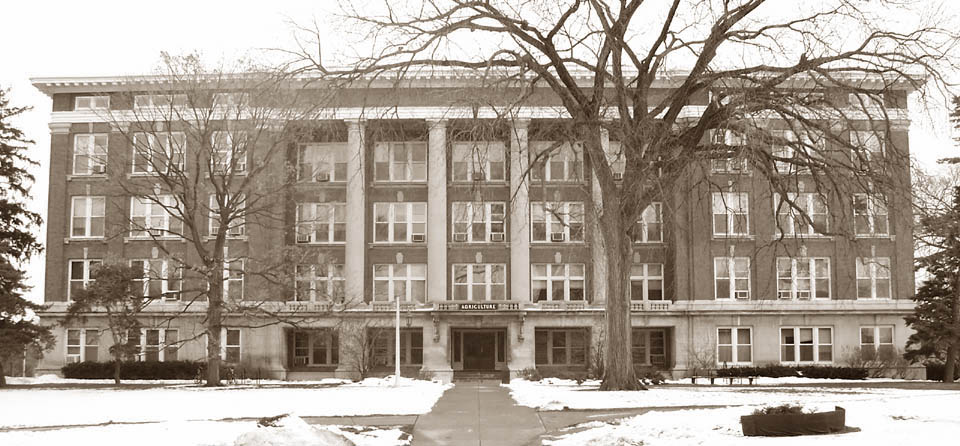 MSU Agriculture Hall